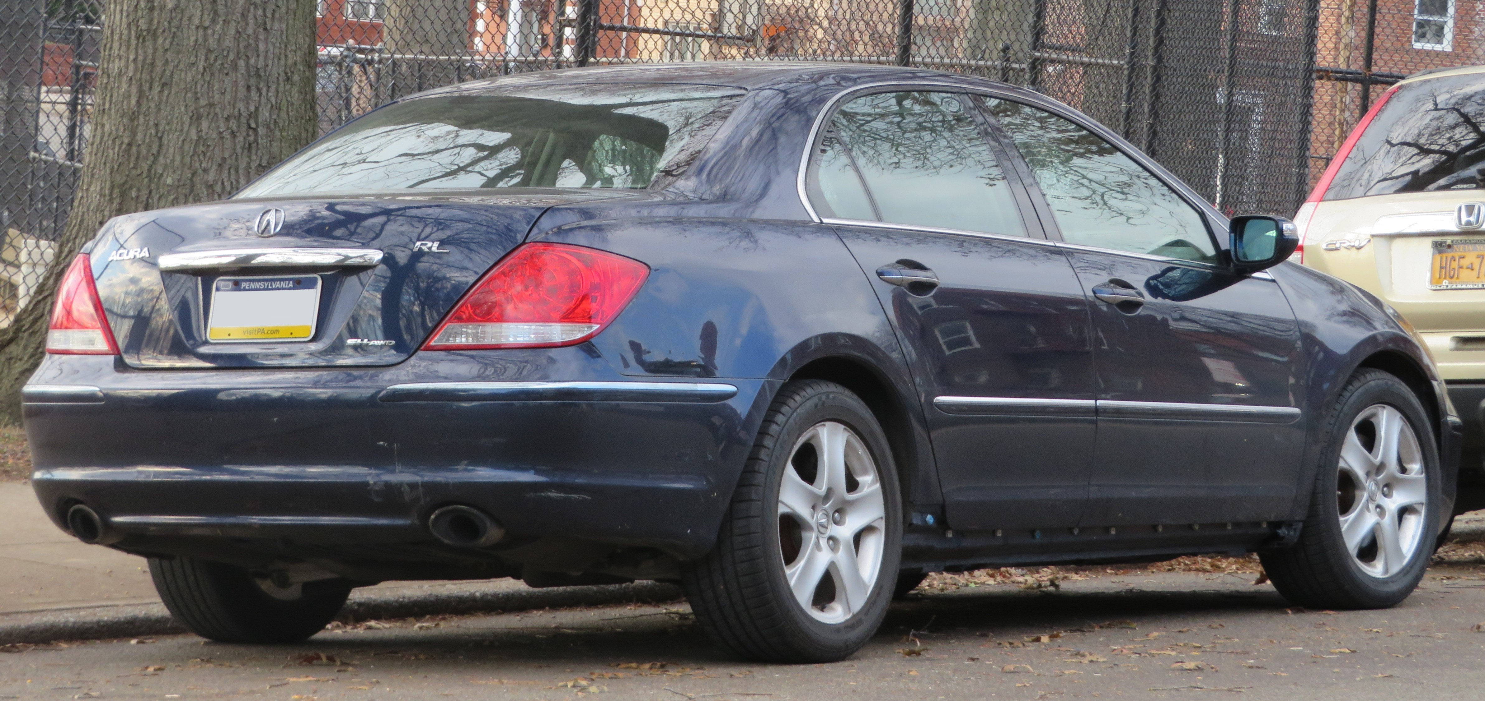 Photographed in Kew Gardens(Queens), New York